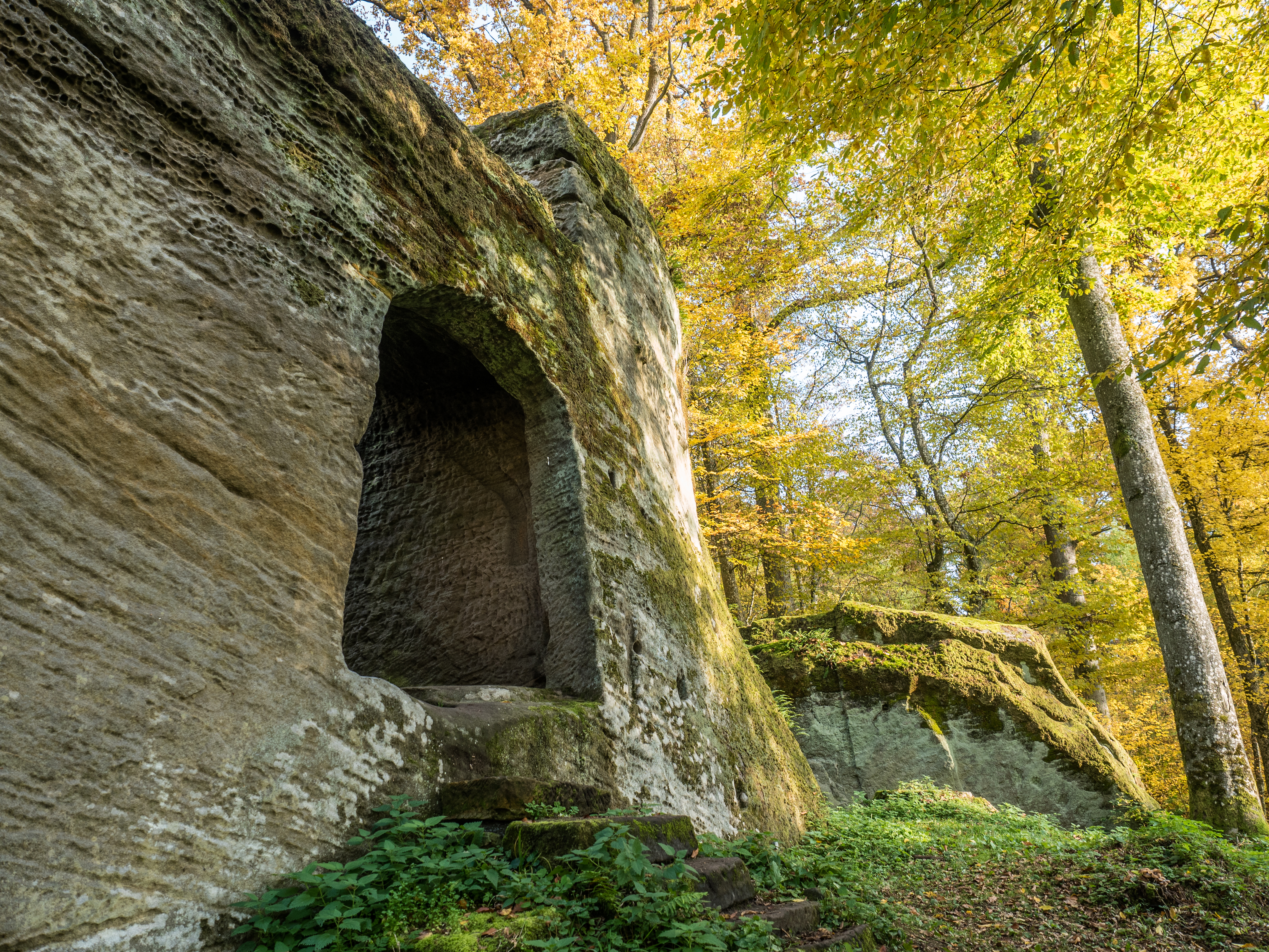 Detail of the rock castle ruins Rotenhan in Ebern in Lower Franconia